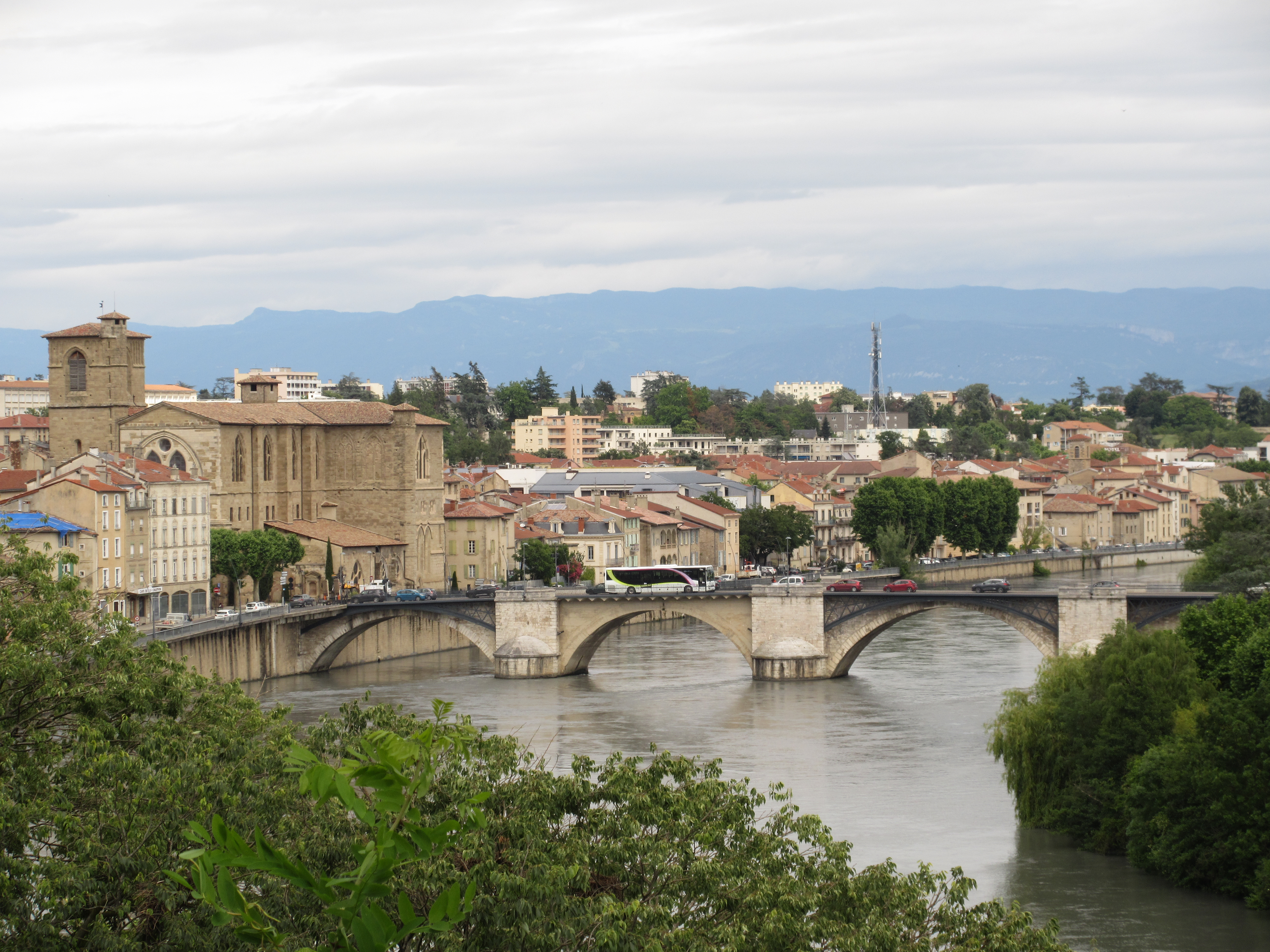 General view of Romans-sur-Isère